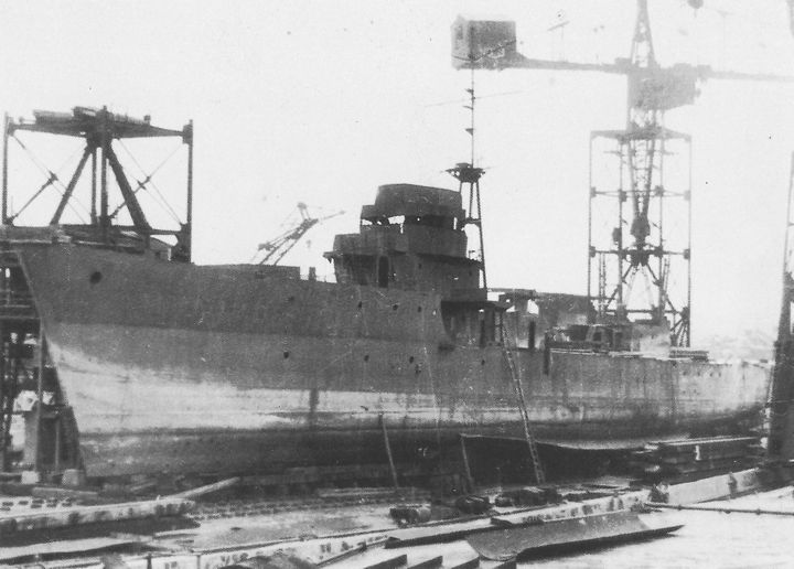 IJN Ōtsu